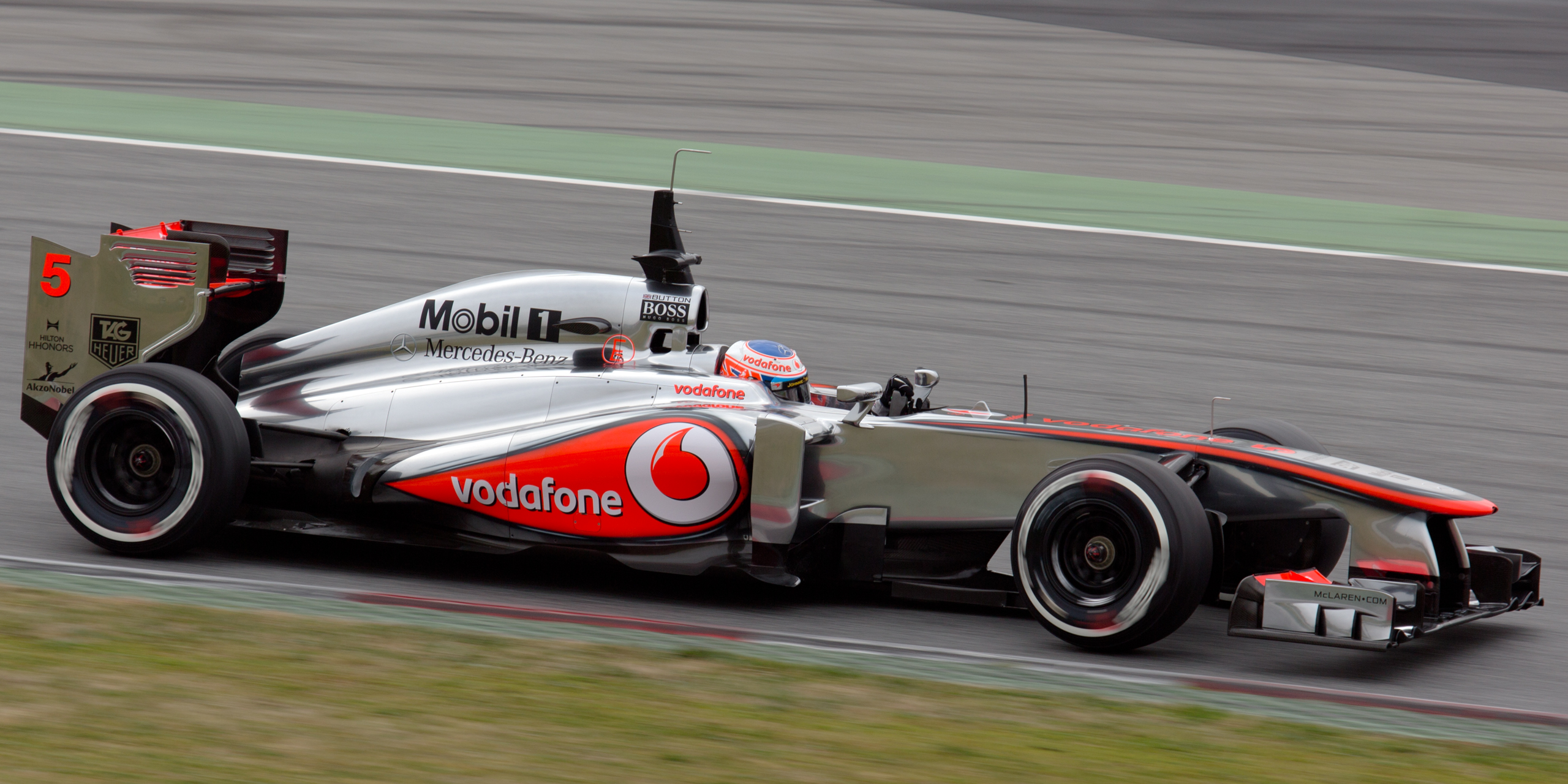 Formula One 2013 Catalonia test (19-22 February): Jenson Button (McLaren)